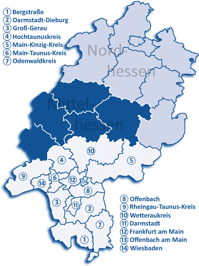 The map shows the districts in the Regierungsbezirk Darmstadt